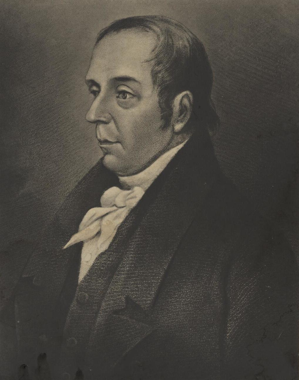 A portrait from the Welsh Portrait Collection at the National Library of Wales. Depicted person: Joseph Harris – Welsh Baptist minister, author, journal editor and poet